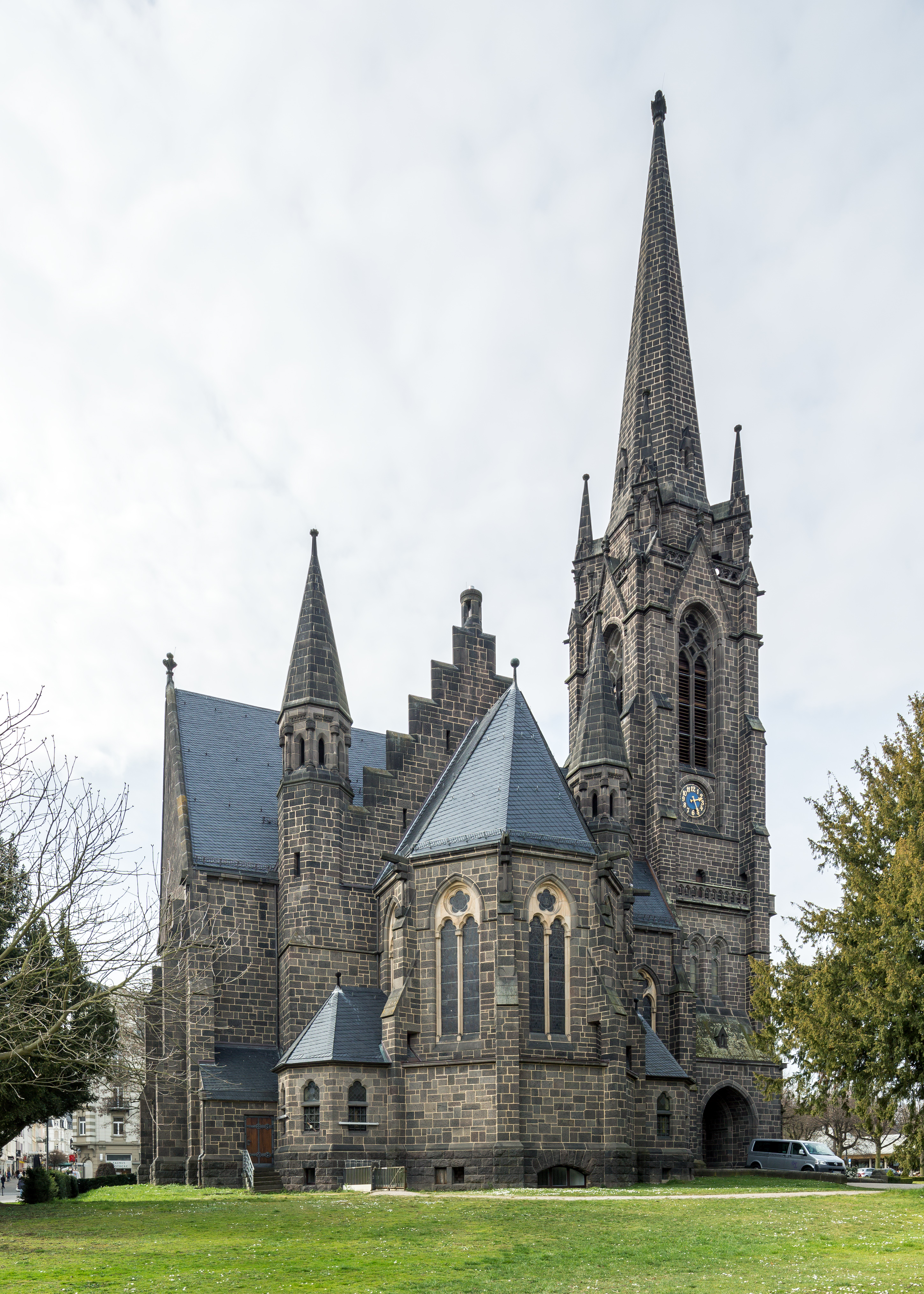 Bad Nauheim: Dankeskirche (Church of Thank) as seen from the southeast